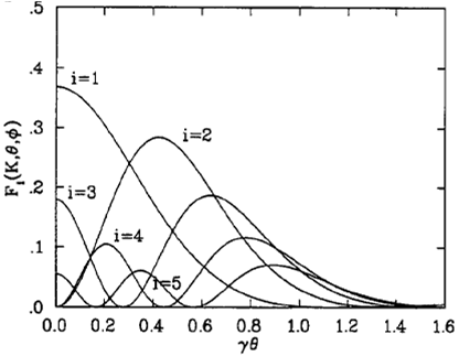 Undulator_radiation_off_axis.png